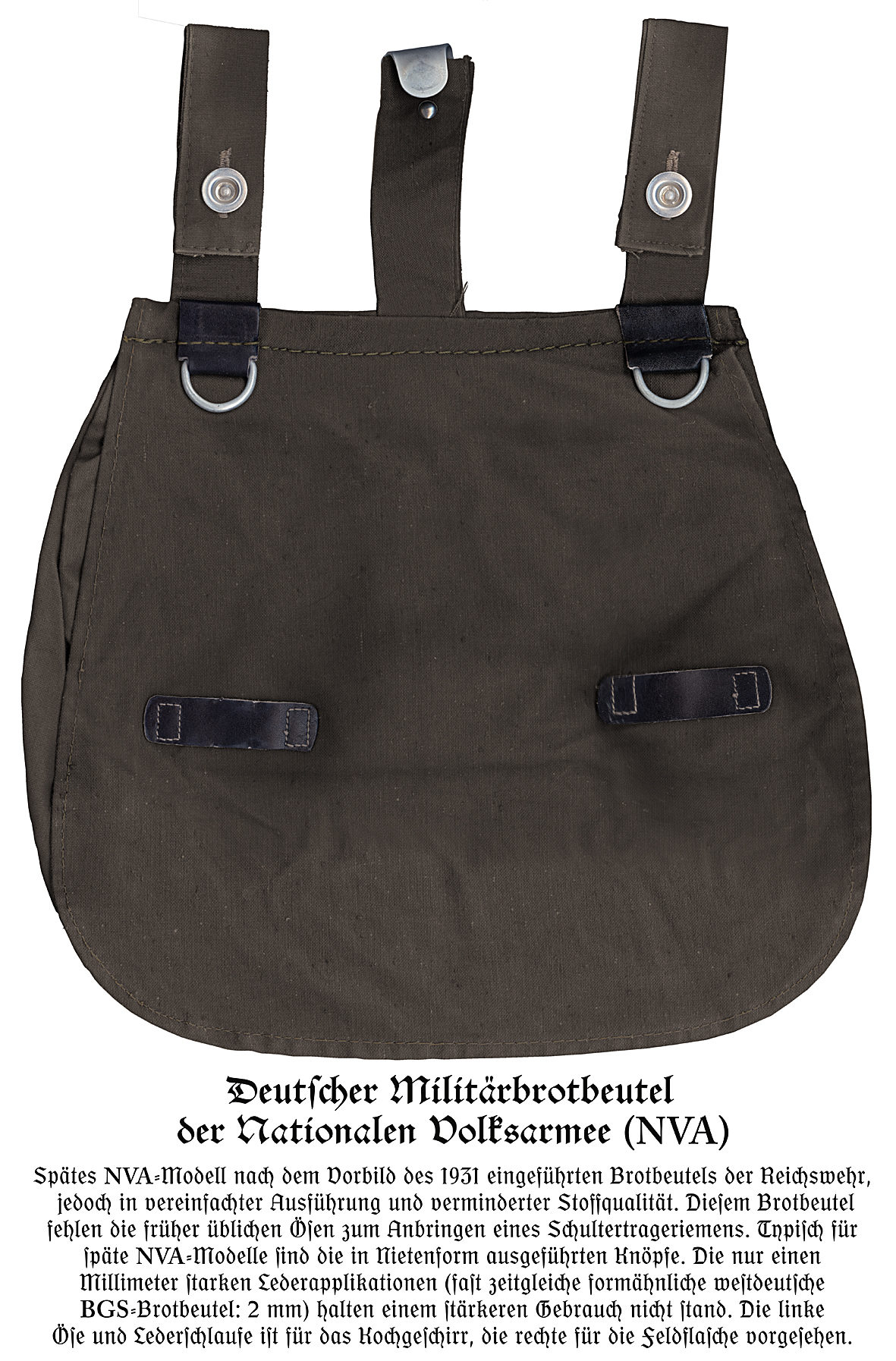 Late NVA bread bag